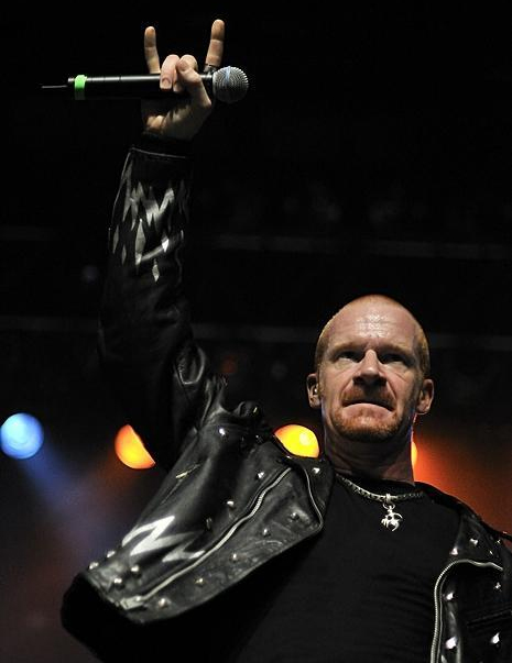 Matt Barlow 2008